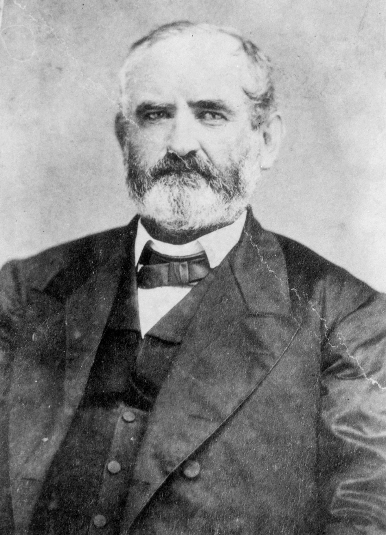 Tod Robinson Caldwell, NC Governor 1870 - 1874; was also NC's first Lt. Governor serving from the establishment of that office in 1868 through 1870. From the Barden Collection, State Archives of North Carolina, Raleigh, NC.